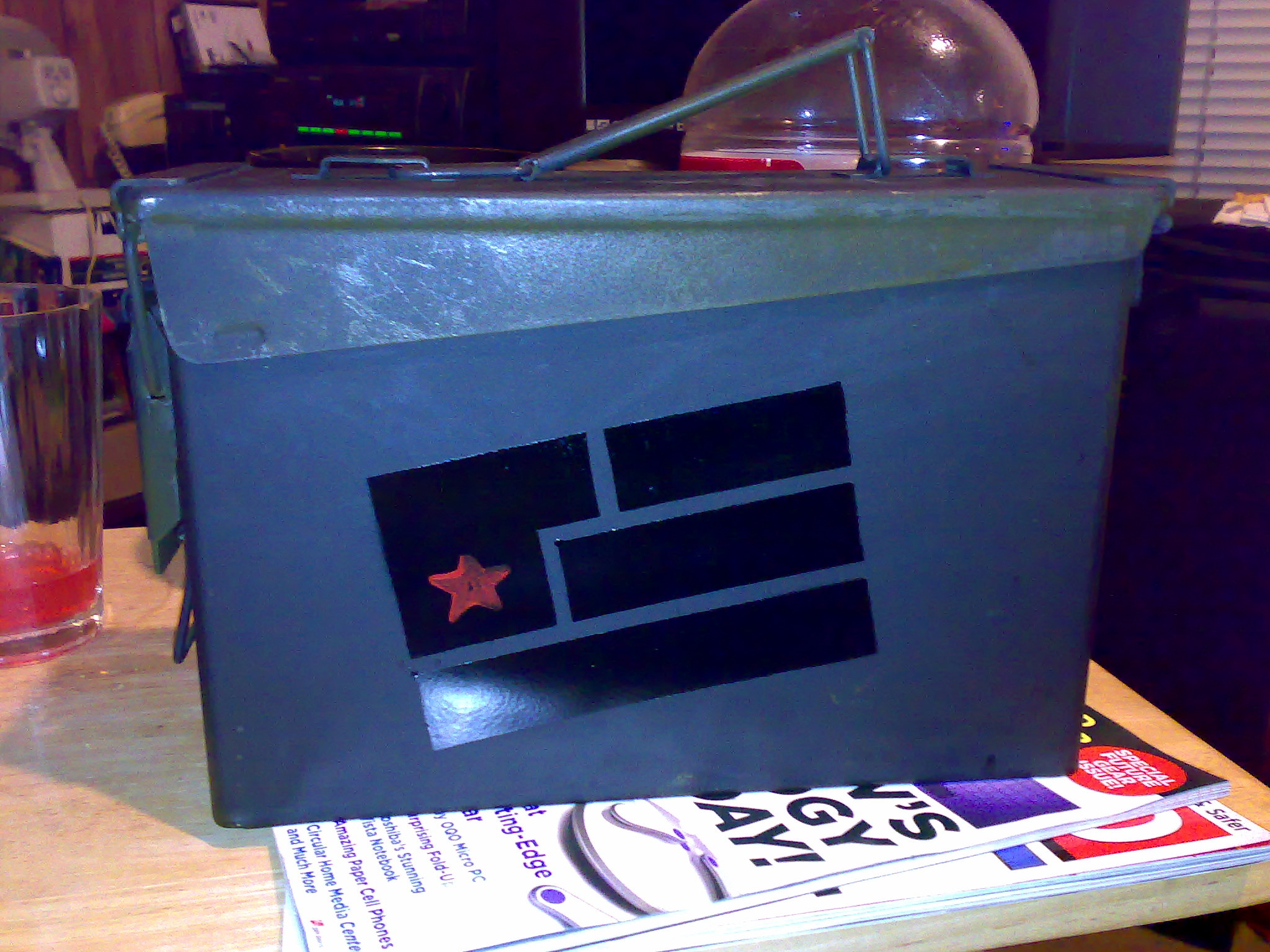 An Art is Resistance kit, part of the Year Zero alternate reality game